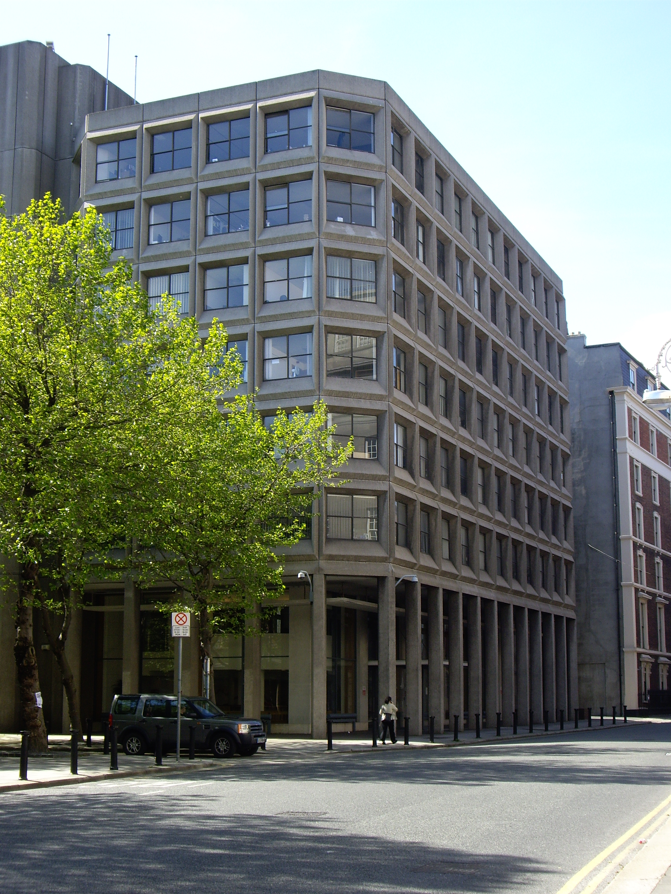 Agriculture House, Kildare Street, Dublin 2: Headquarters of the Department of Agriculture, Fisheries and Food (Ireland)